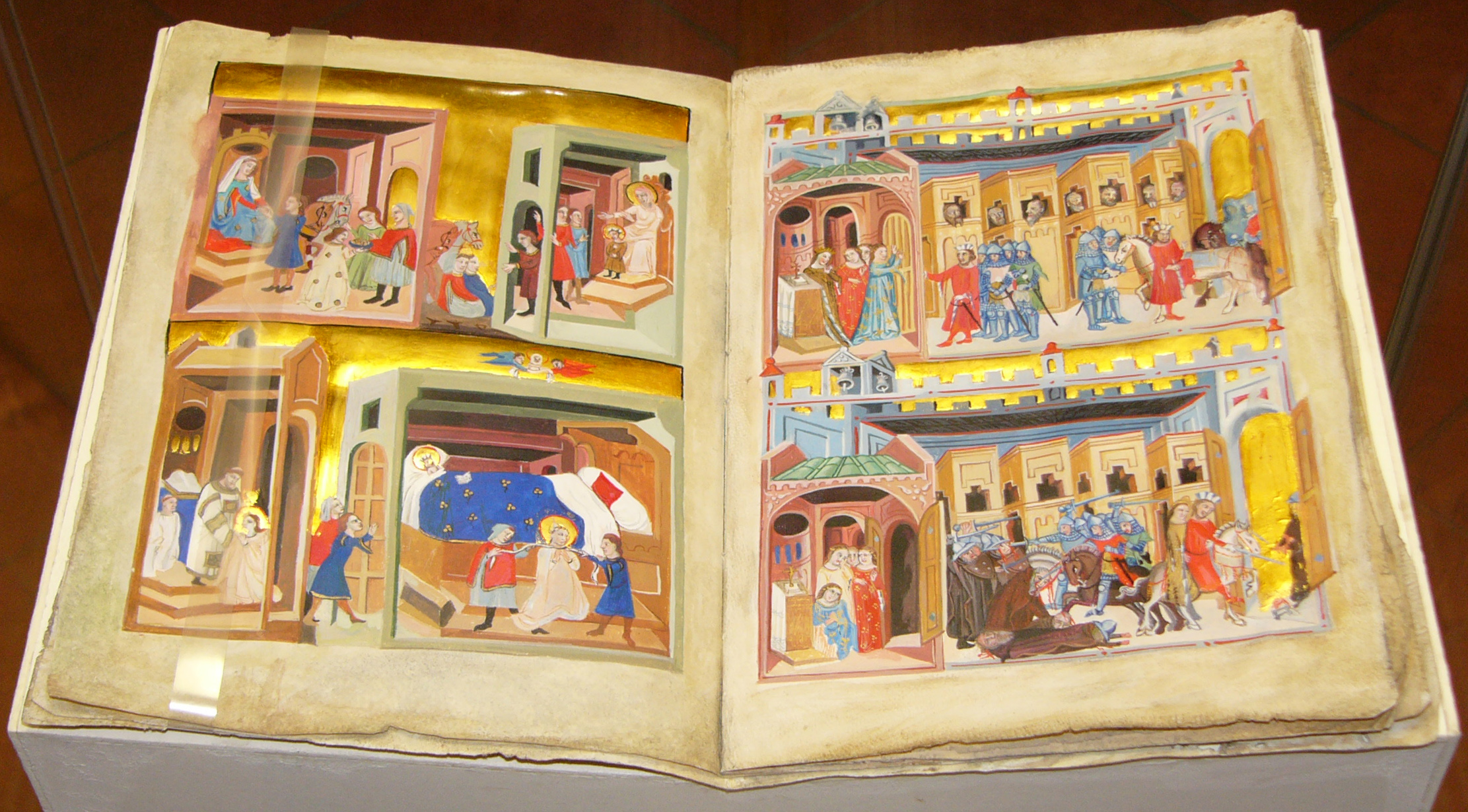 Chronicle of so called Dalimil - fragment of latin translation, parchment 1330 - 1340. This is the photo of identical artistic copy, which is indistinguishable from original. But it is able to photo with flash. Depiction on the left: young Wenceslaus I, Duke of Bohemia and Saint Ludmila and her murder. Depiction on the right: Bretislaus I of Bohemia is kidnapping his wife Judith (Jitka) of Schweinfurt from the monastery.